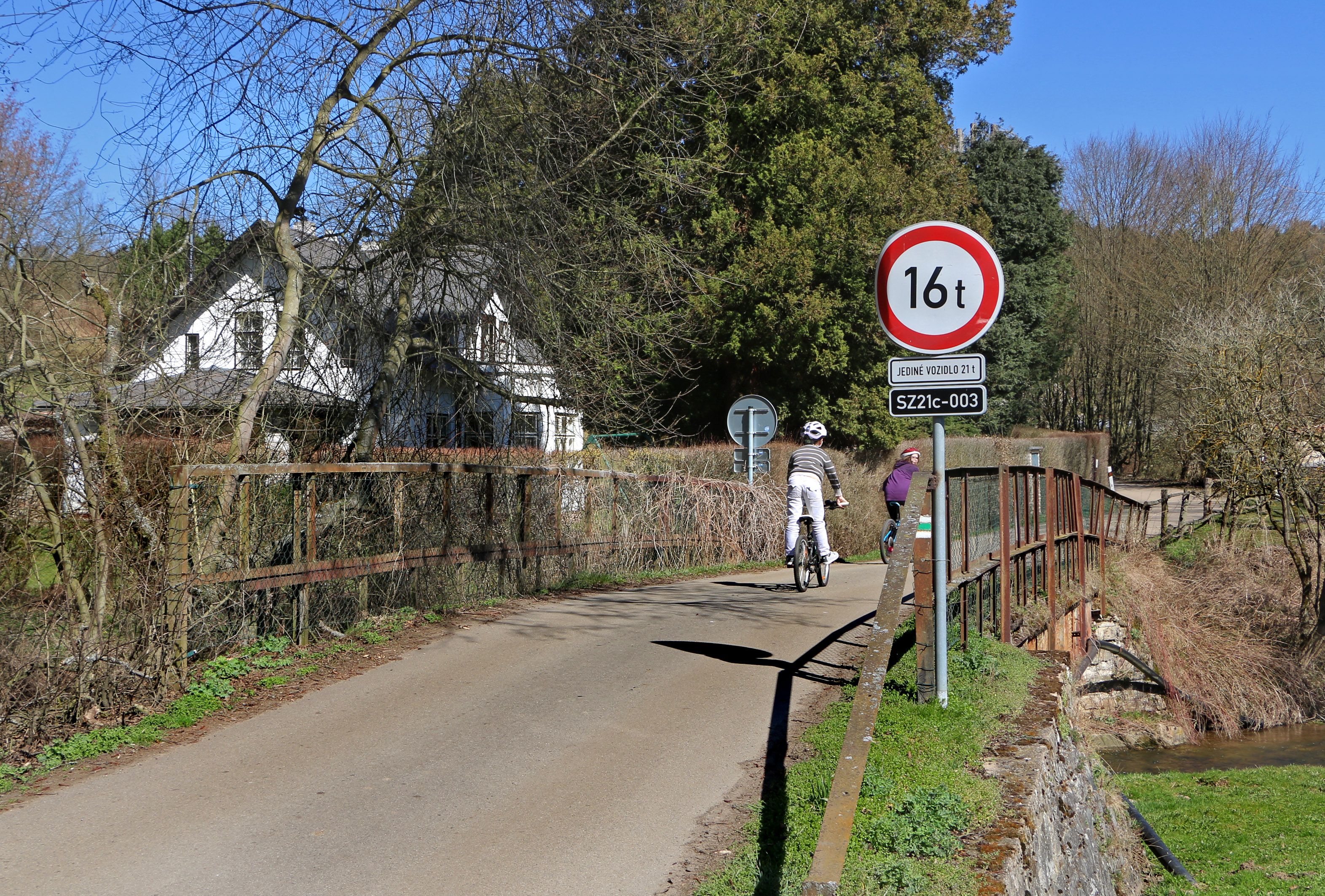 Bridge over Křešický creek in Poříčko, part of Sázava, Czech Republic.